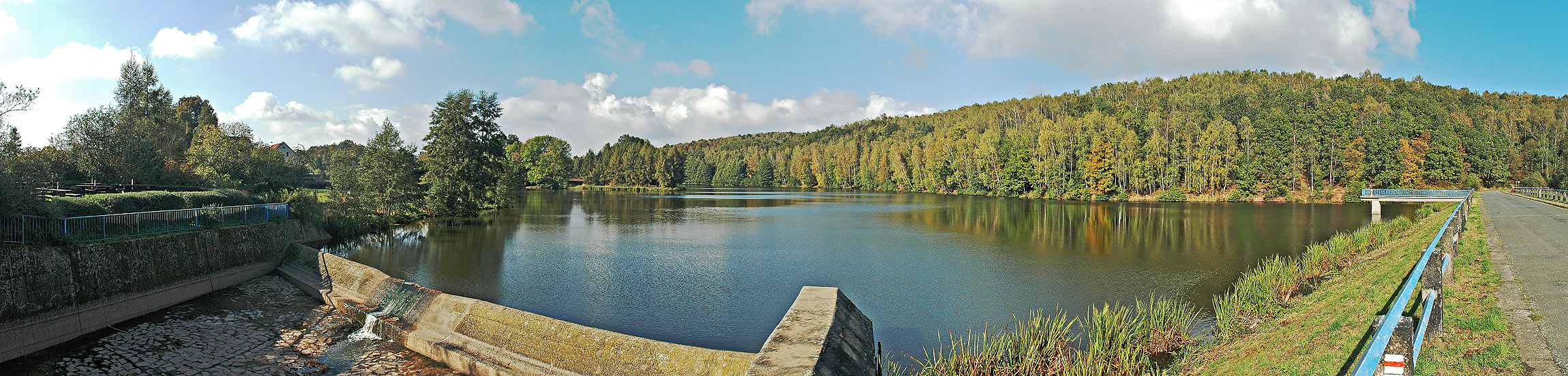 This image shows the Koberbach reservoir (Saxony, Germany). It has been stitched together using four single pictures.